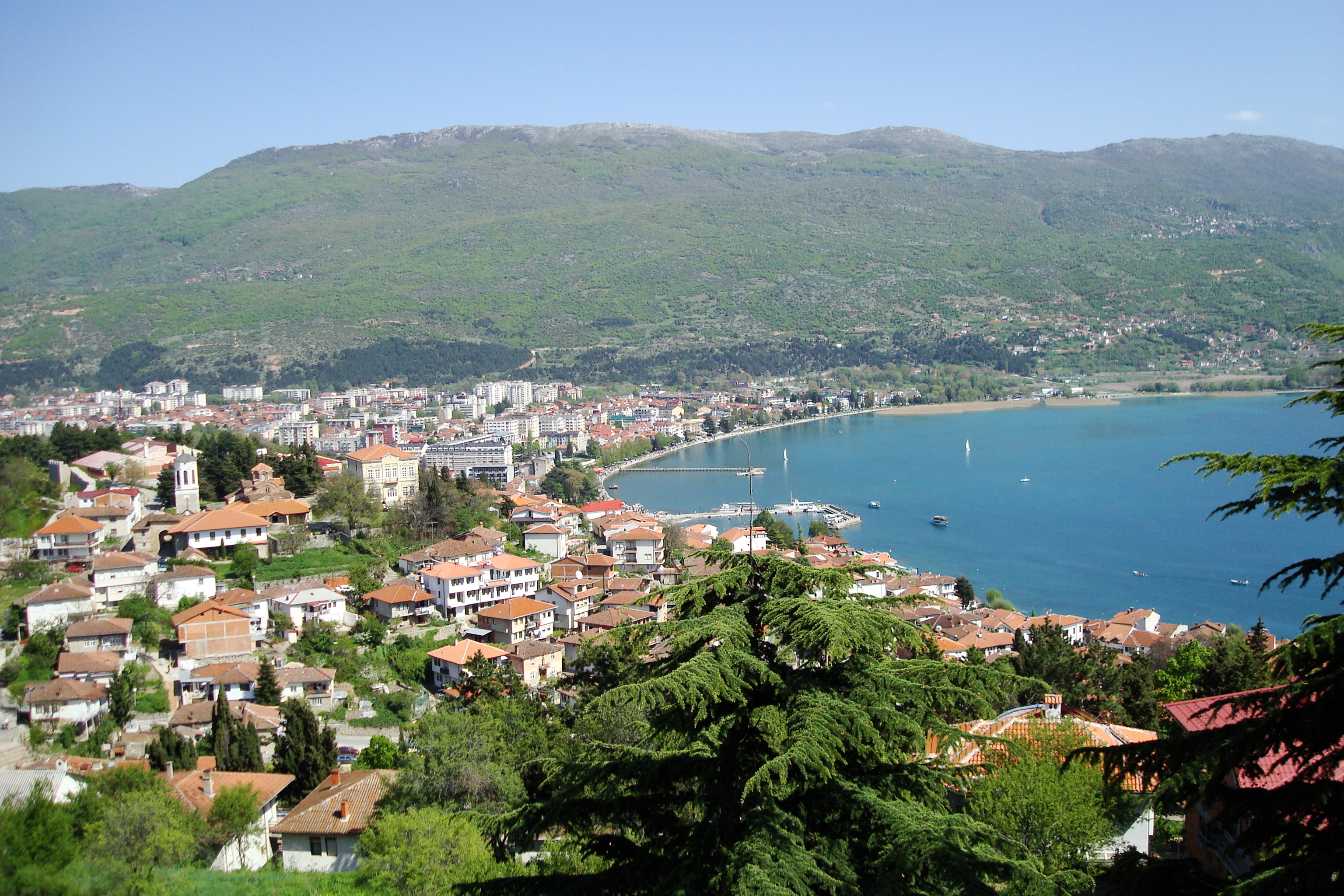 Ohrid, Macedonia This image is uploaded as part of the picture contest Wiki Loves Cultural Heritage in Macedonia 2013. English | македонски | +/−